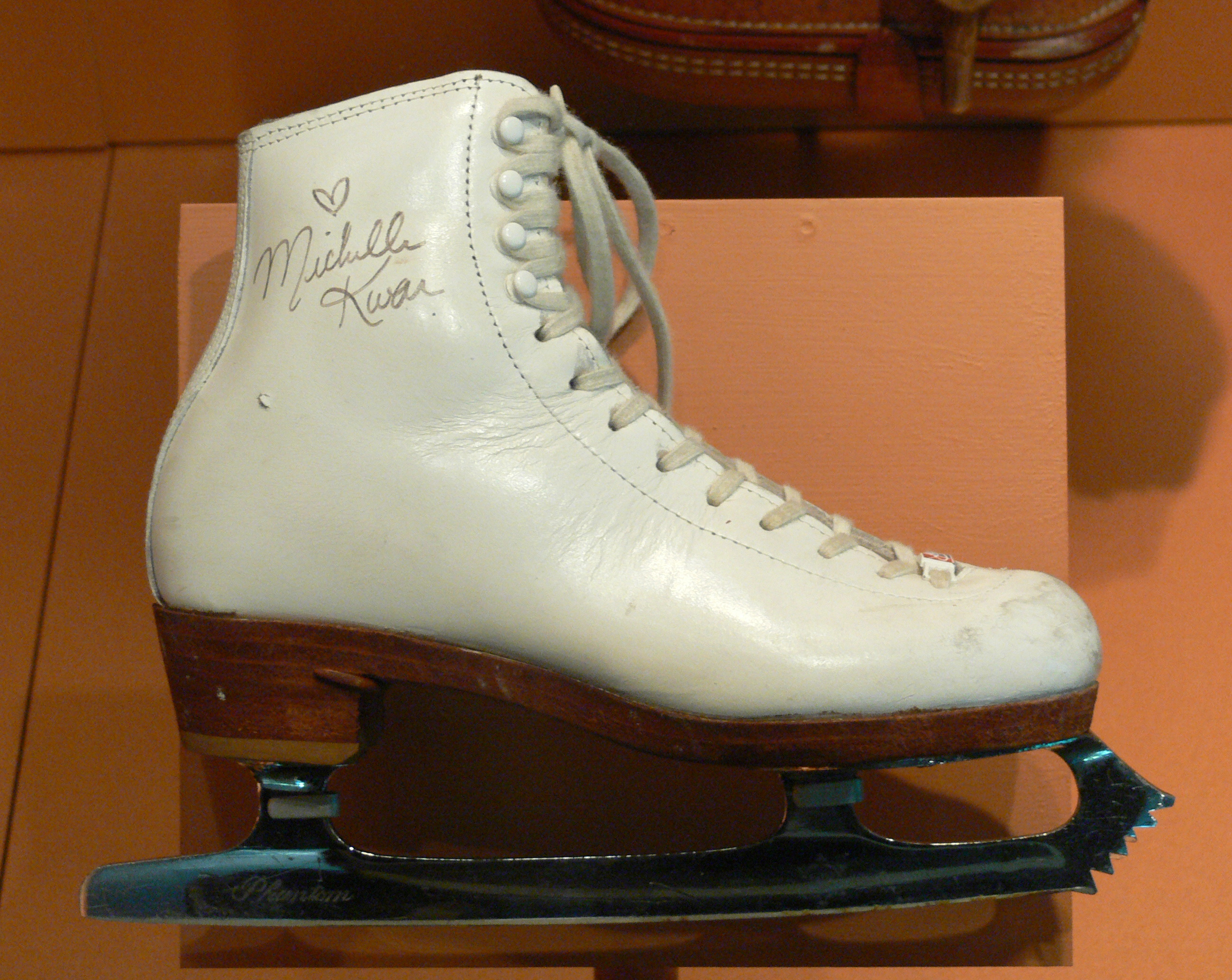 Ice skate, c. 1995, signed by Michelle Kwan (Courtesy of Michelle Kwan) The Women's Museum, Dallas, Texas